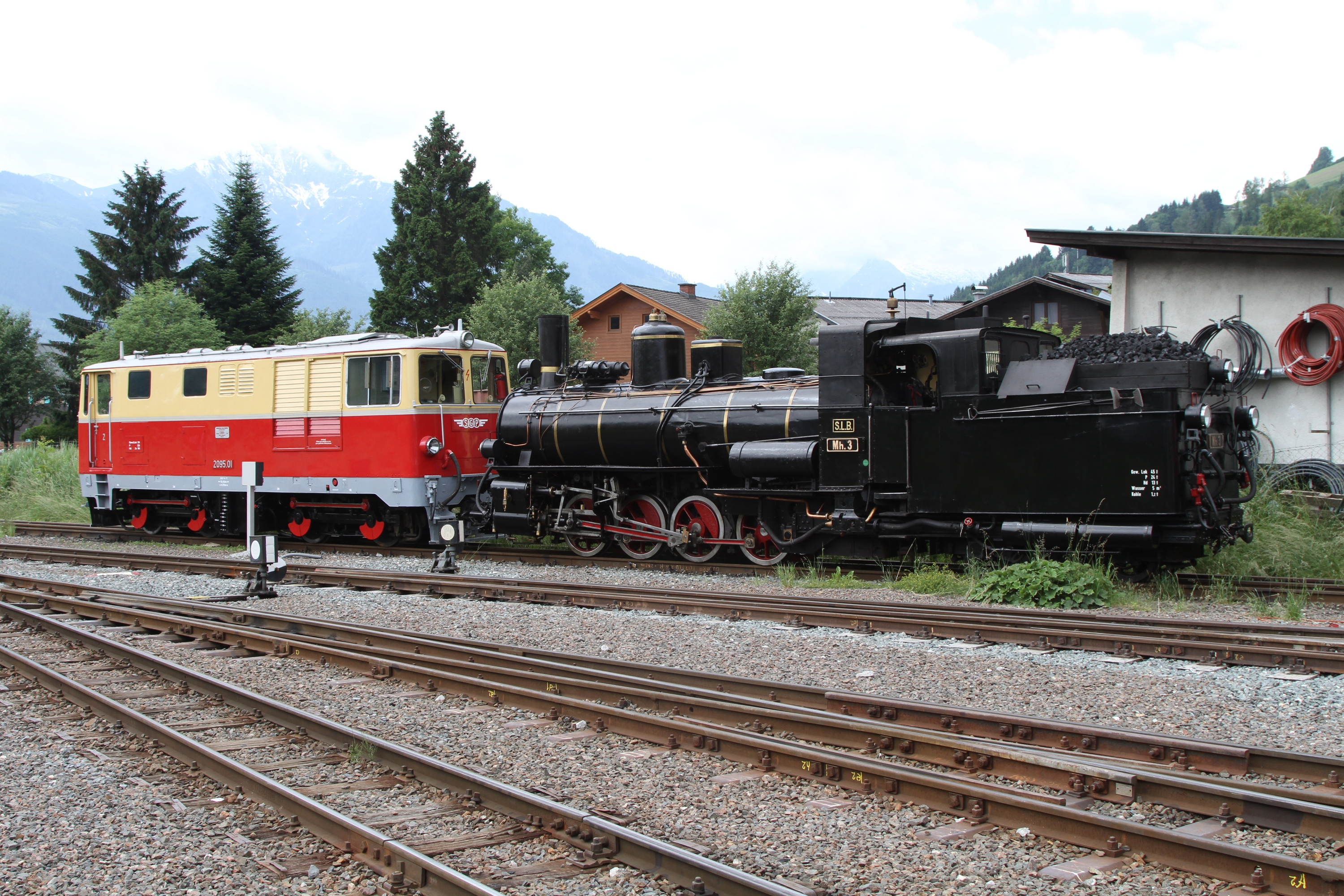 Diesel locomotive Vs 71 (ex ÖBB 2095.01) and steam engine Mh.3 (ex ÖBB 399.03) at Tischlerhäusl depot.